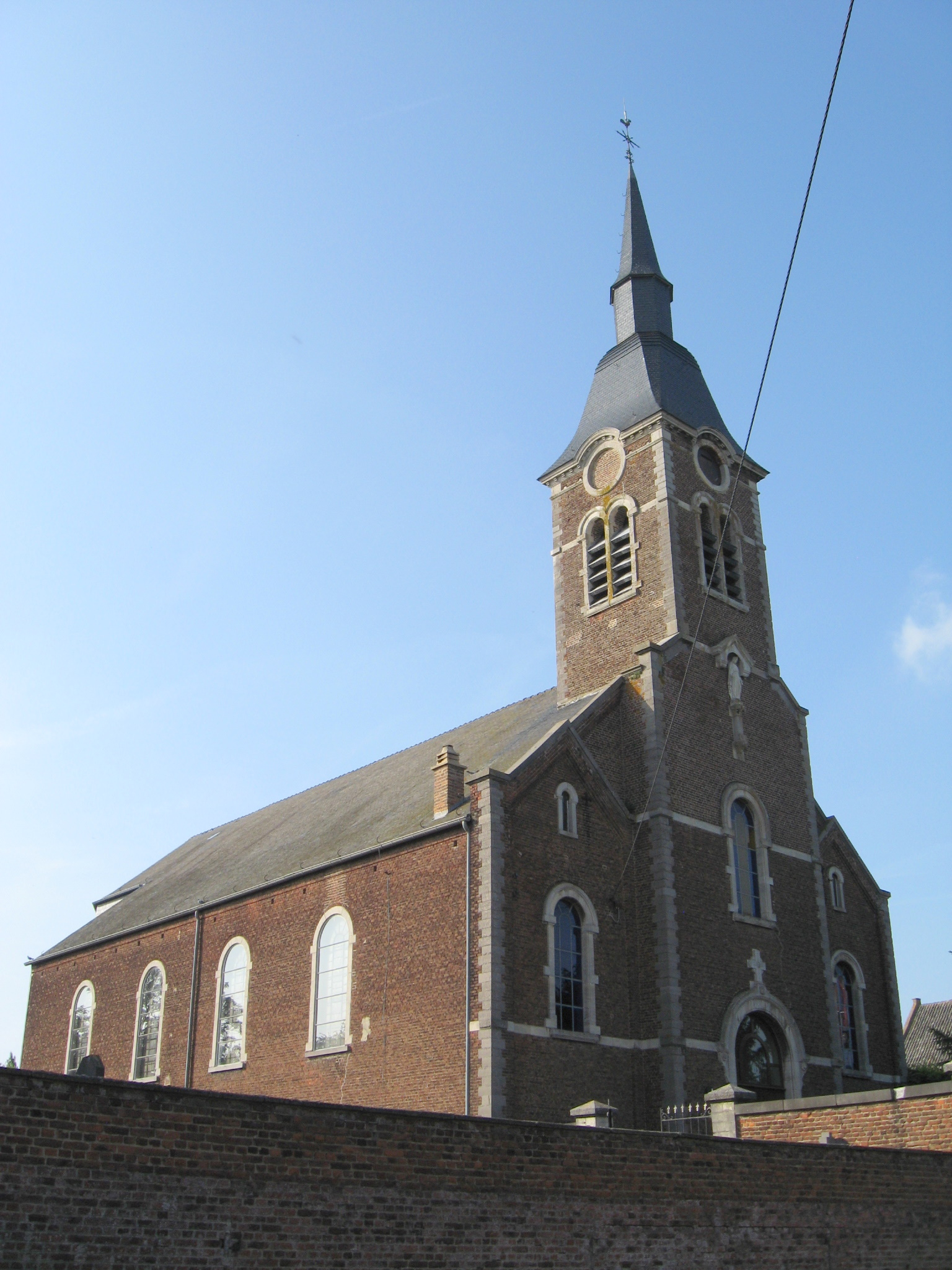 Church of Saint Theobald in Jandrenouille, Jandrain-Jandrenouille, Orp-Jauche, Walloon Brabant, Belgium